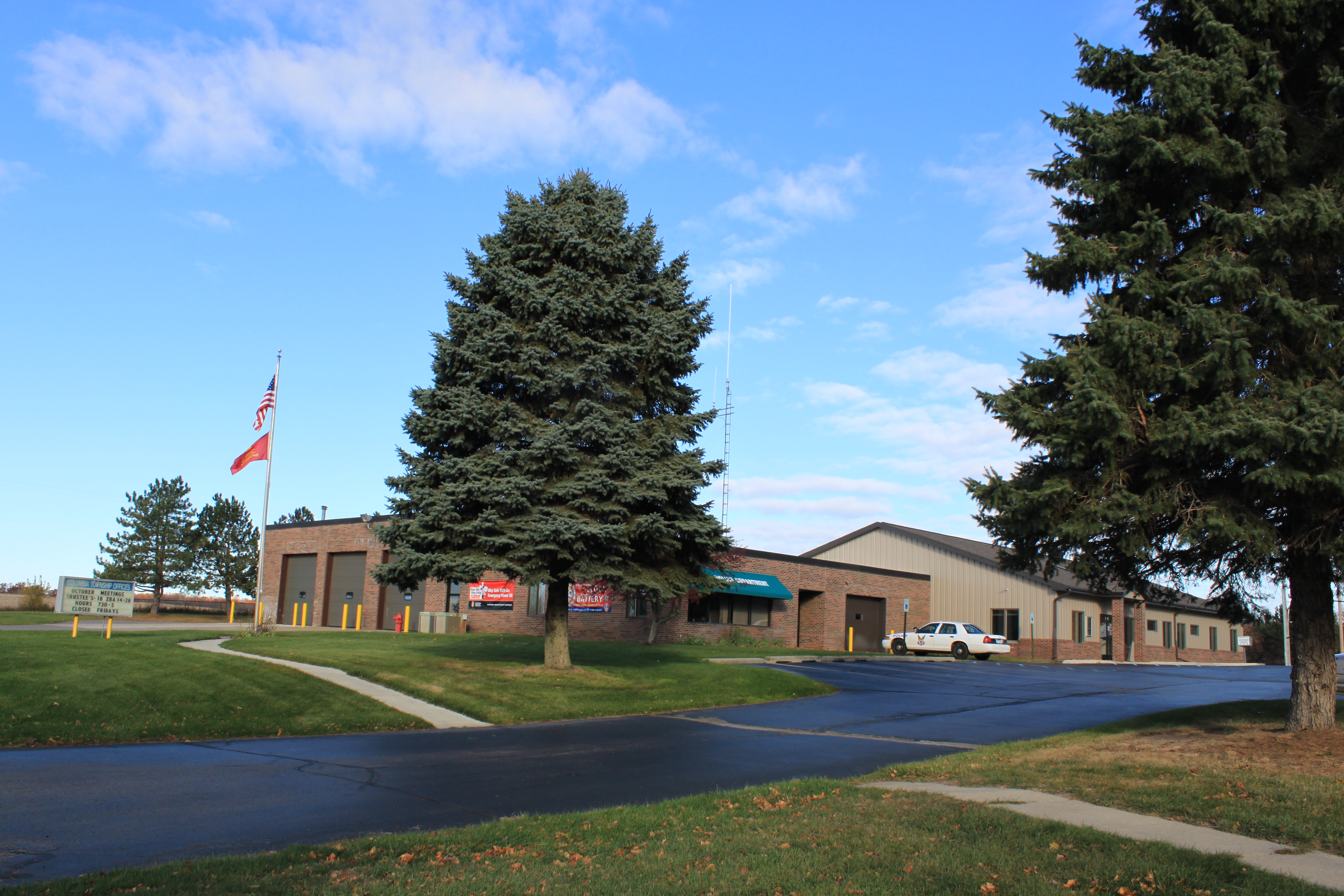 Columbia Township Offices, 8500 Jefferson Road, Columbia Township Michigan